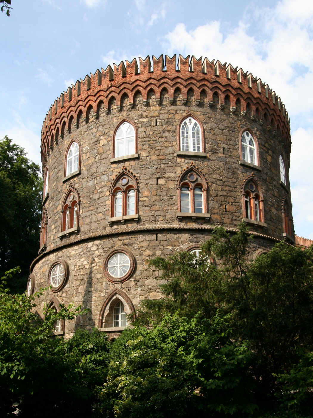 Part of former Fortification of Linz, today part of a private school.